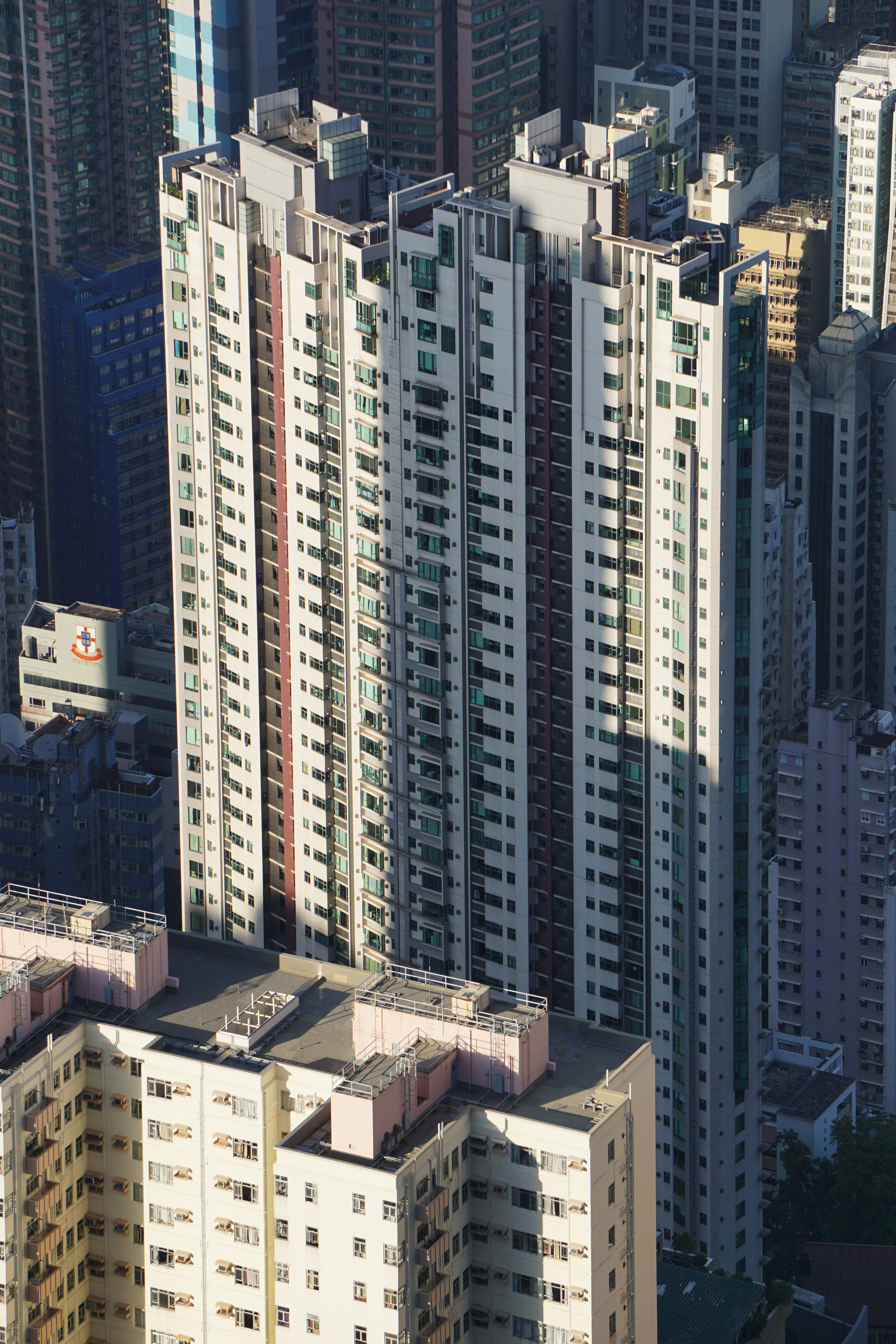 80 Robinson Road in Mid-levels West, Hong Kong.